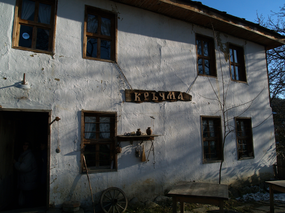 A pub in rural style from Leshten, Bulgaria